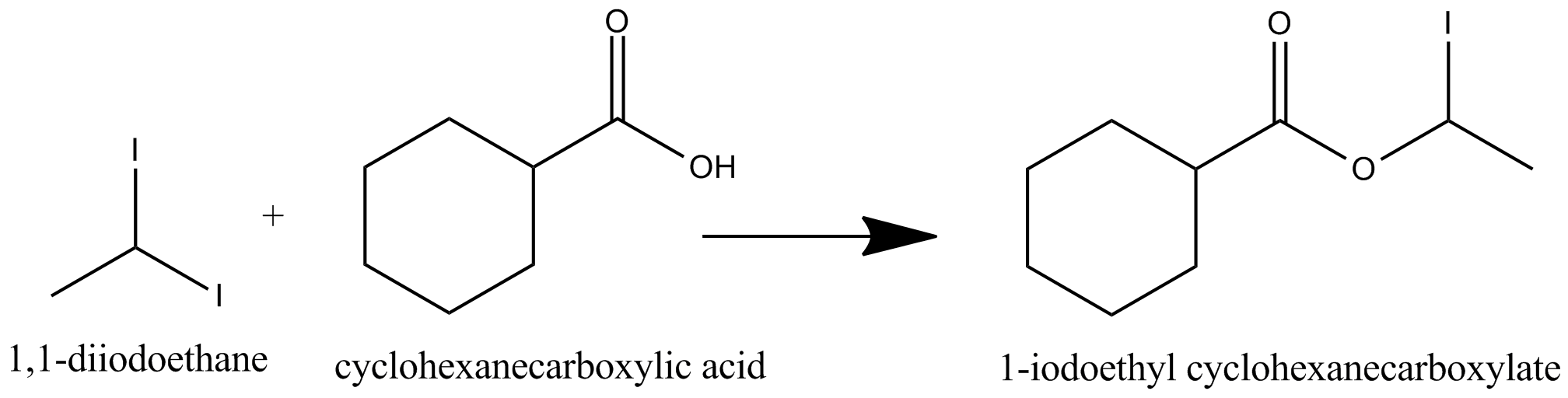 This is the picture showing the application of 1,1-diiodoethane as a reactant in SN2 reaction